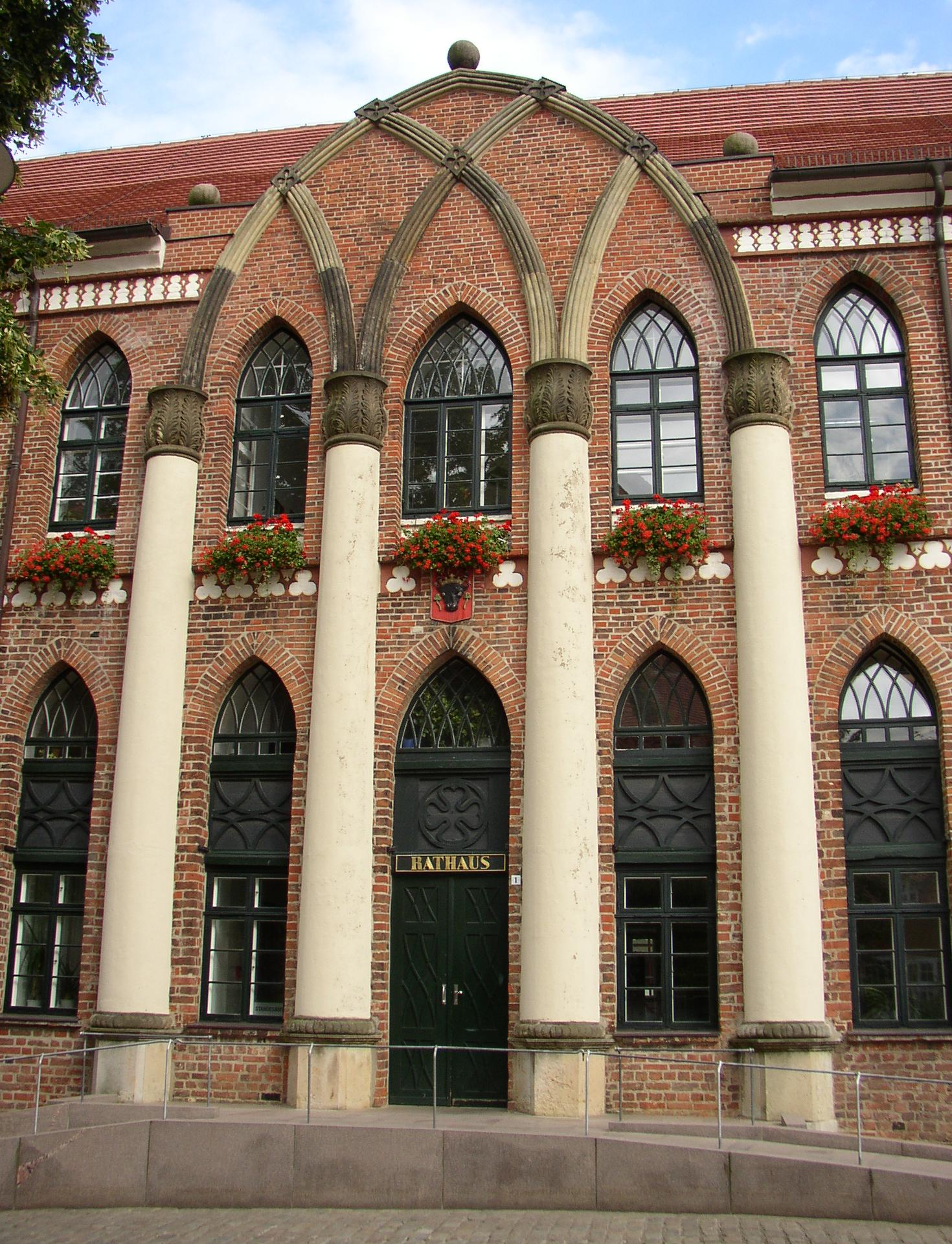 Town hall in Parchim in Mecklenburg-Western Pomerania, Germany